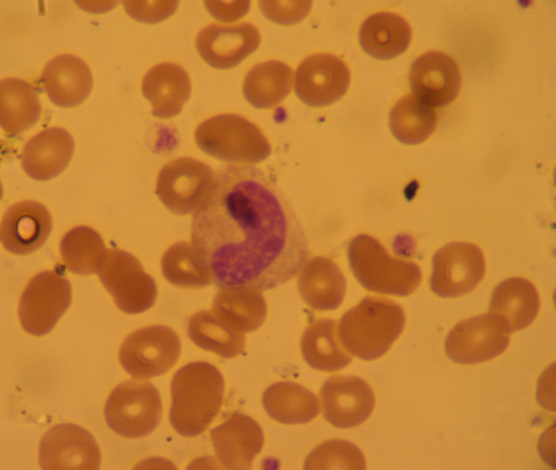 Band neutrophil from a blood smear under a microscope (40x).